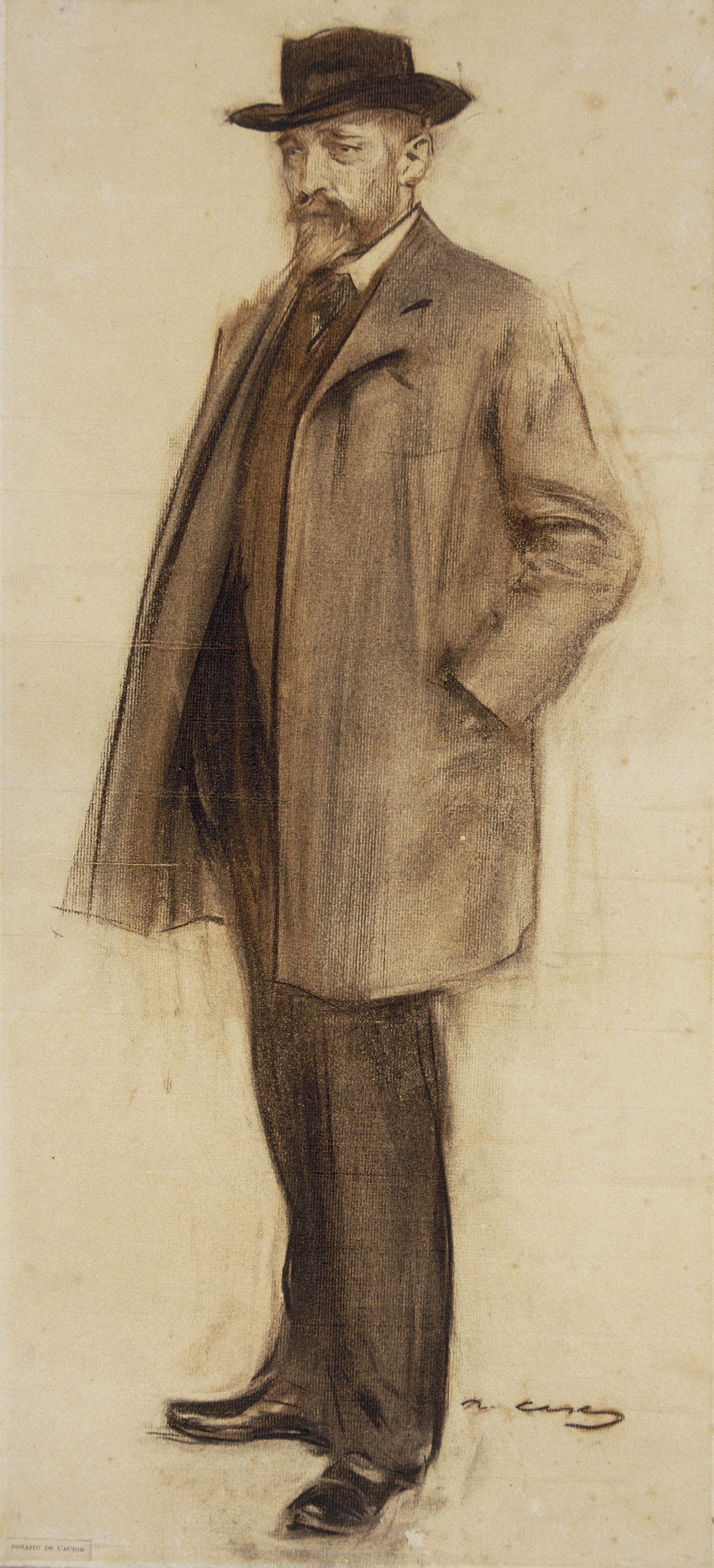 Portrait by Ramon Casas conserved at MNAC in Barcelona.